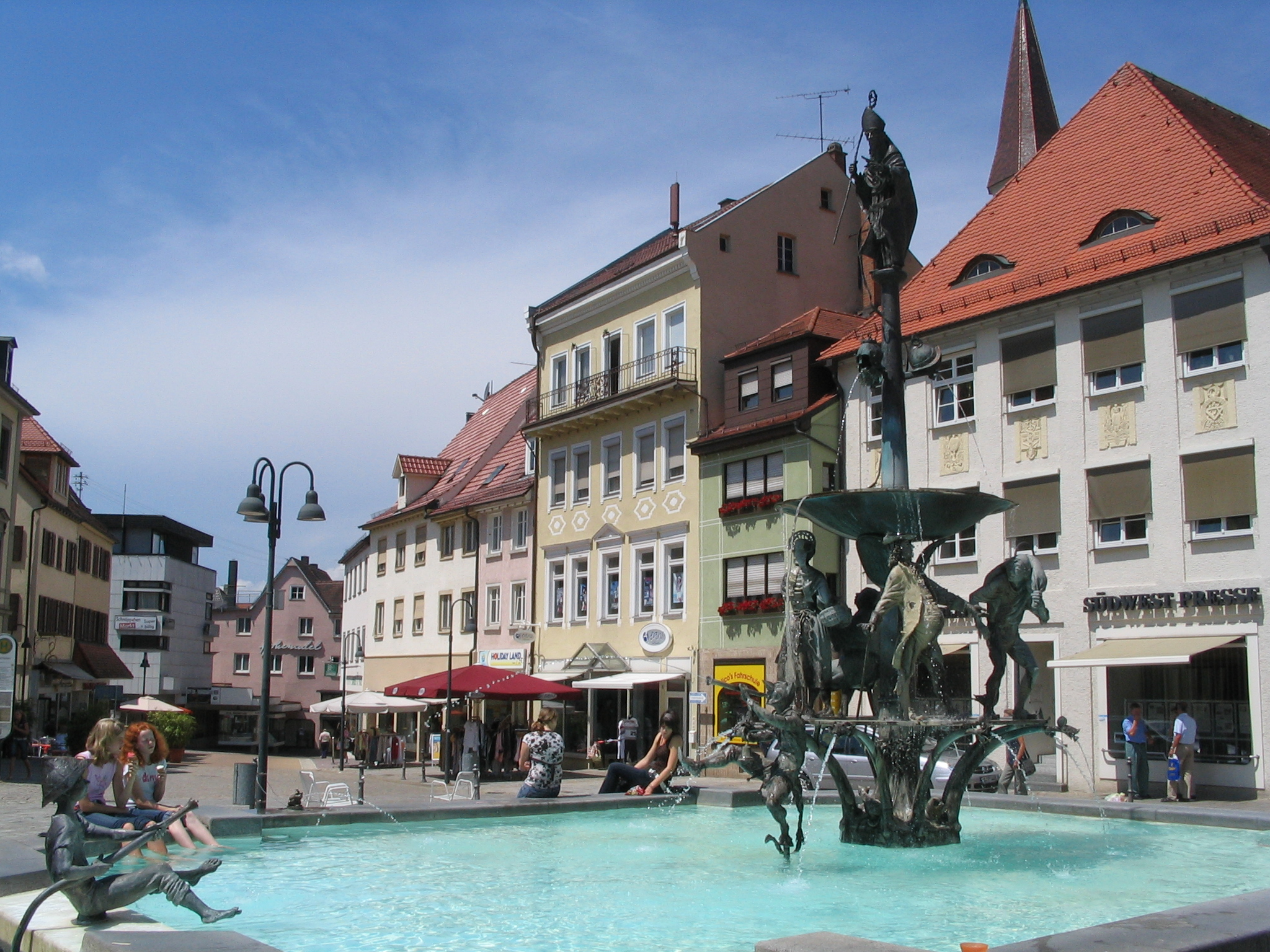 Fountain in the market square of Ehingen, Germany.